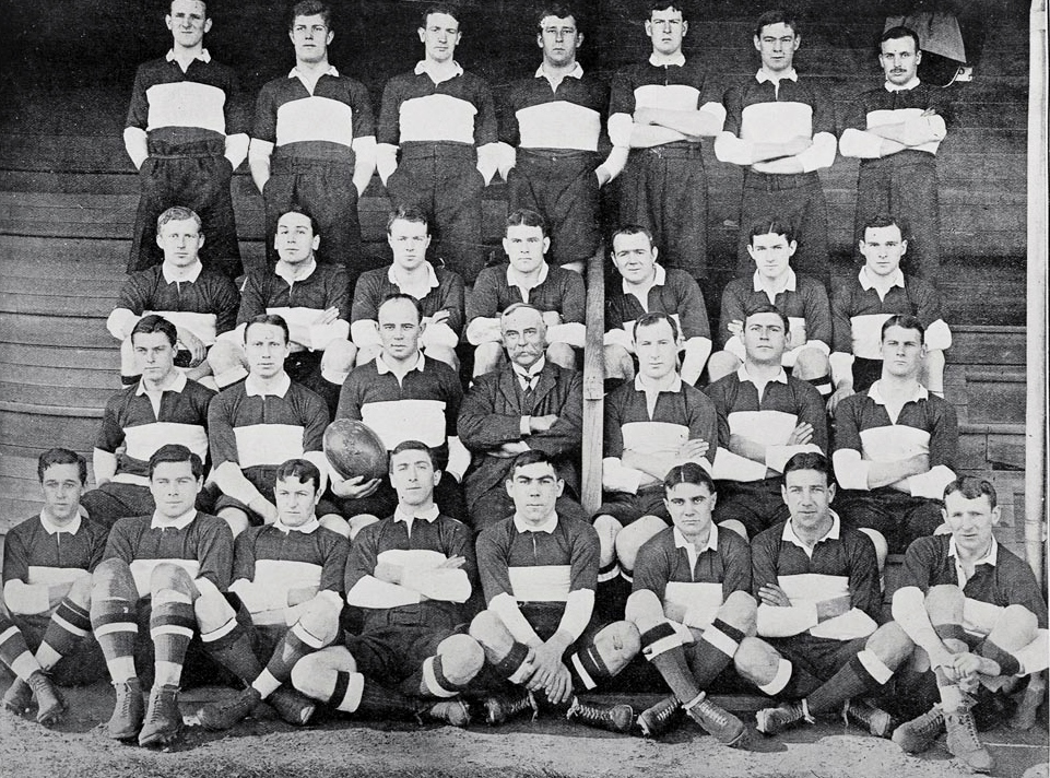 The 1908 Anglo-Welsh rugby union team that toured New Zealand. Pictured here after arriving in Wellington. Cropped. Back row: J. P. Jones, W. L. Oldham, R. B. Griffiths, F. Jackson, T. Smith, J. F. Williams, H. Archer Third row: G. F. Kryke, P. J. Down, J. A. S. Ritson, E. Morgan, R. K. Green, G. R. Hind, L. S. Thomas Second row: H. H. Vassall, R. A. Gibbs, Arthur Harding (captain), G. H. Harnett (manager), P. F. McEvedy (vice-captain), R. Dibble, F. E. Chapman Front row: W. Morgan, J. C. M. Dyke, G. L. Williams, J. Davey, H. Laxon, E. J. Jackett, J. P. Jones